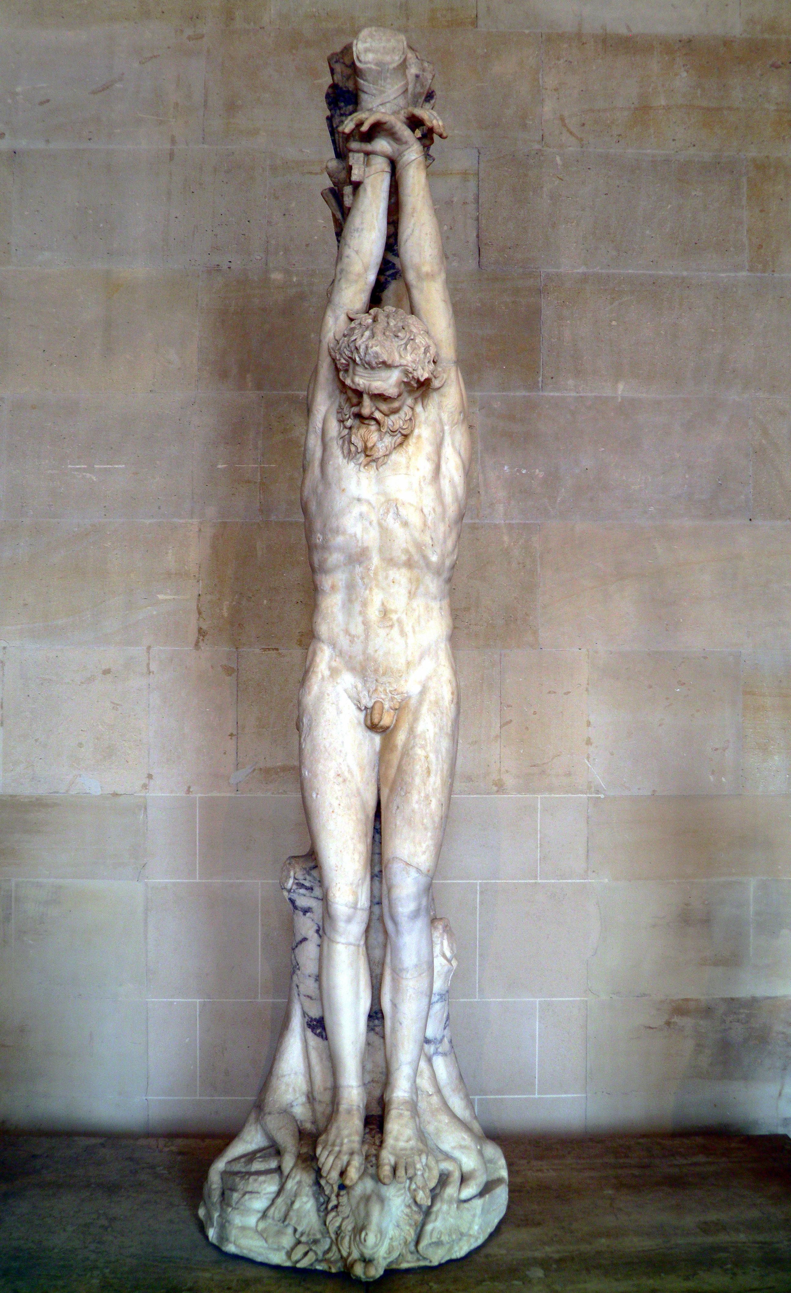 Marble H. 2.56 m Former Borghese collection. Purchased in 1807 Inventaire MR 267 (n° usuel Ma 542) Sully wing Ground floor Salle des Caryatides Room 17